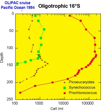 Vertical distribution of the photosynthetic picoplankton populations determined by flow cytometry in the tropical Pacific (OLIPAC cruise, 1994).